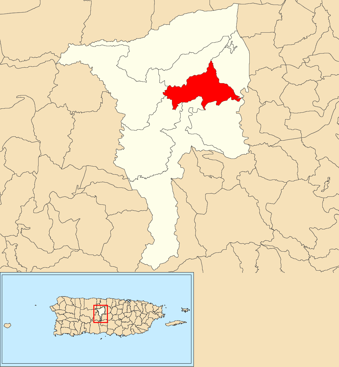 Pesas, Ciales, Puerto Rico locator map